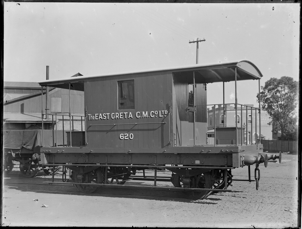 Format: Glass plate negative. Repository: Clyde Engineering Photographic Collection, Powerhouse Museum Part Of: Powerhouse Museum Collection General information about the Powerhouse Museum Collection is available at Persistent URL: Acquisition credit line: Gift of Clyde Engineering Pty Ltd, 1988